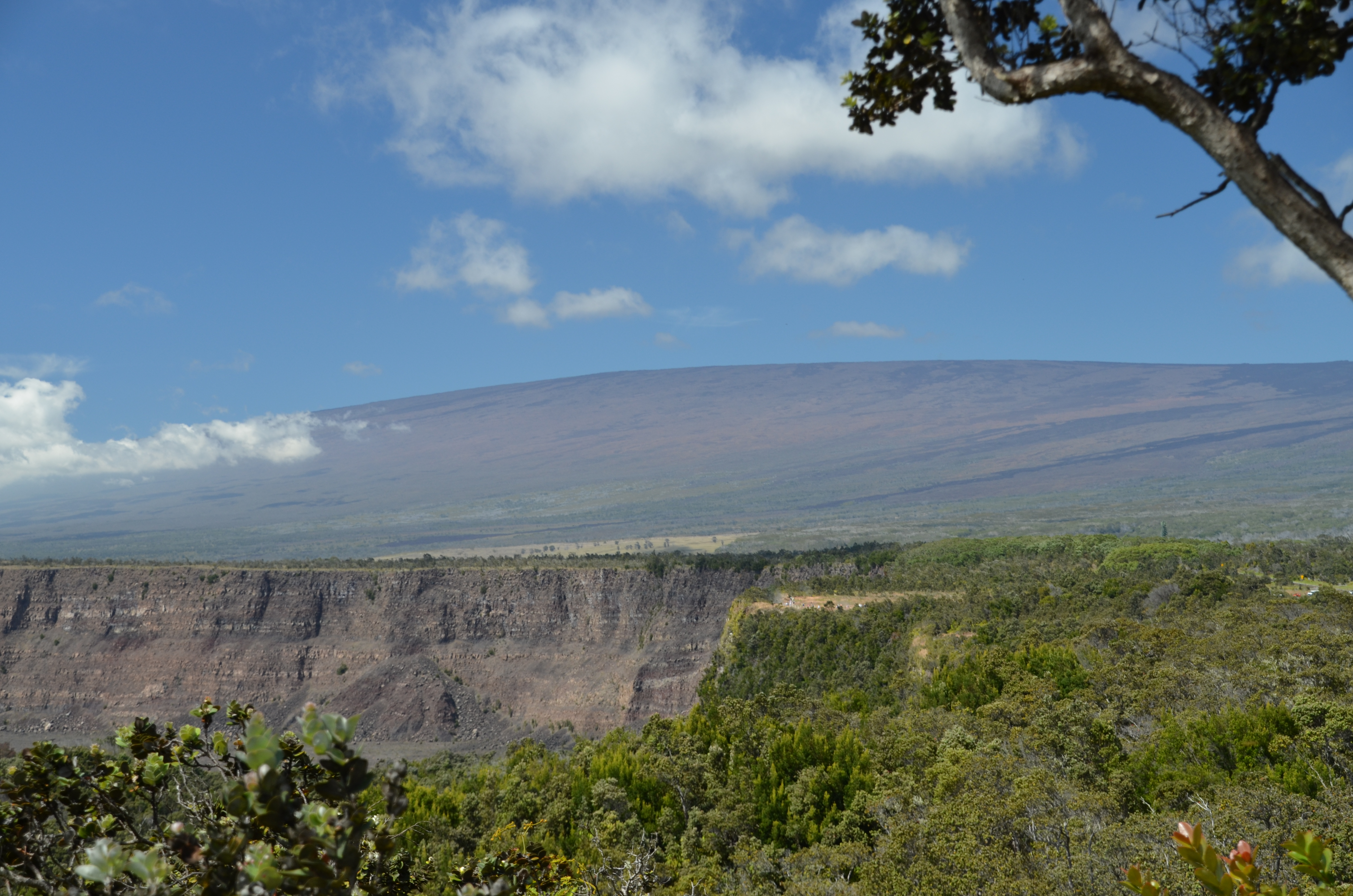 View from Volcano House over the rim of Kīlauea Caldera to Mauna Loa